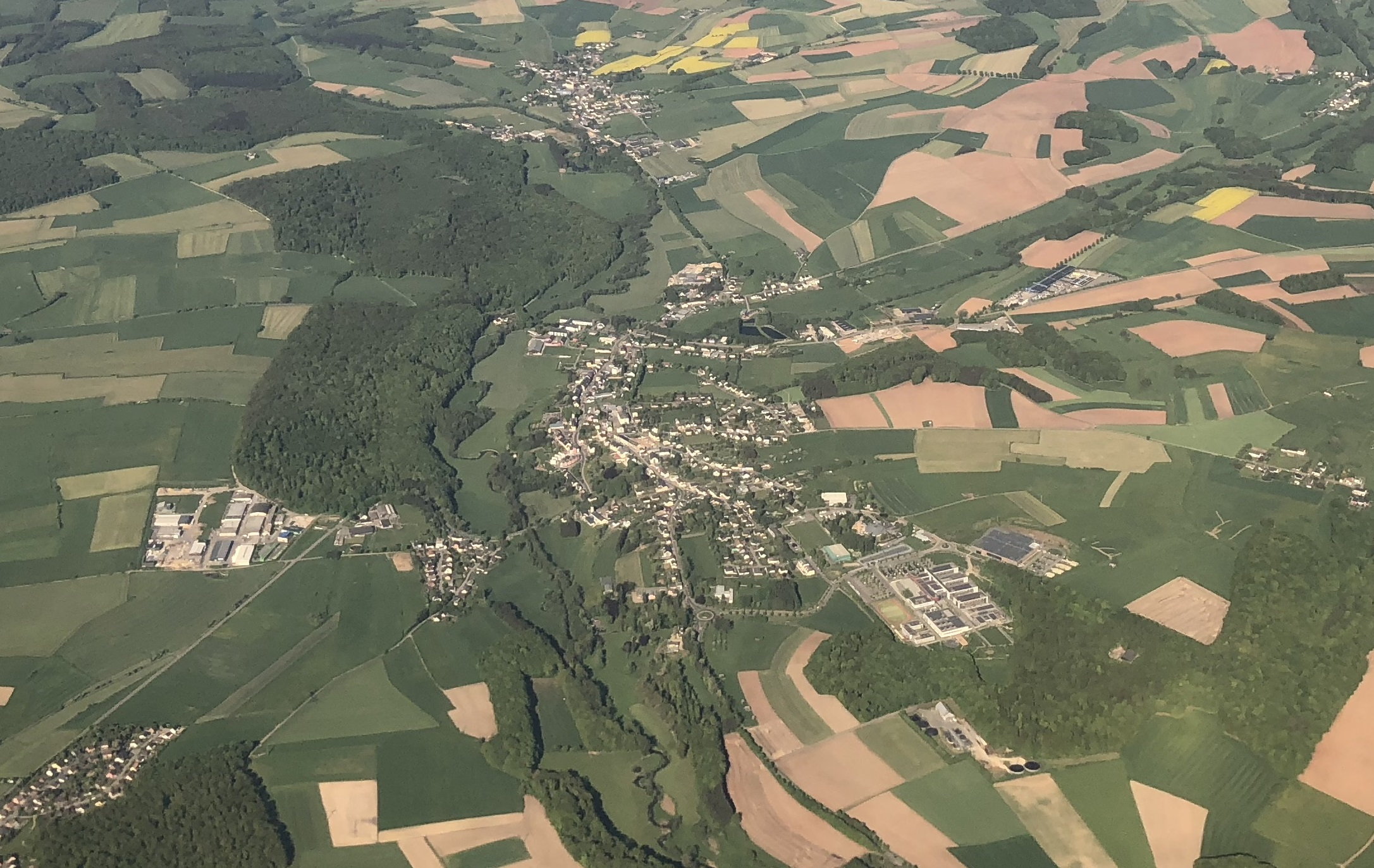 Aerial view of Redange (Réiden) in Luxembourg.